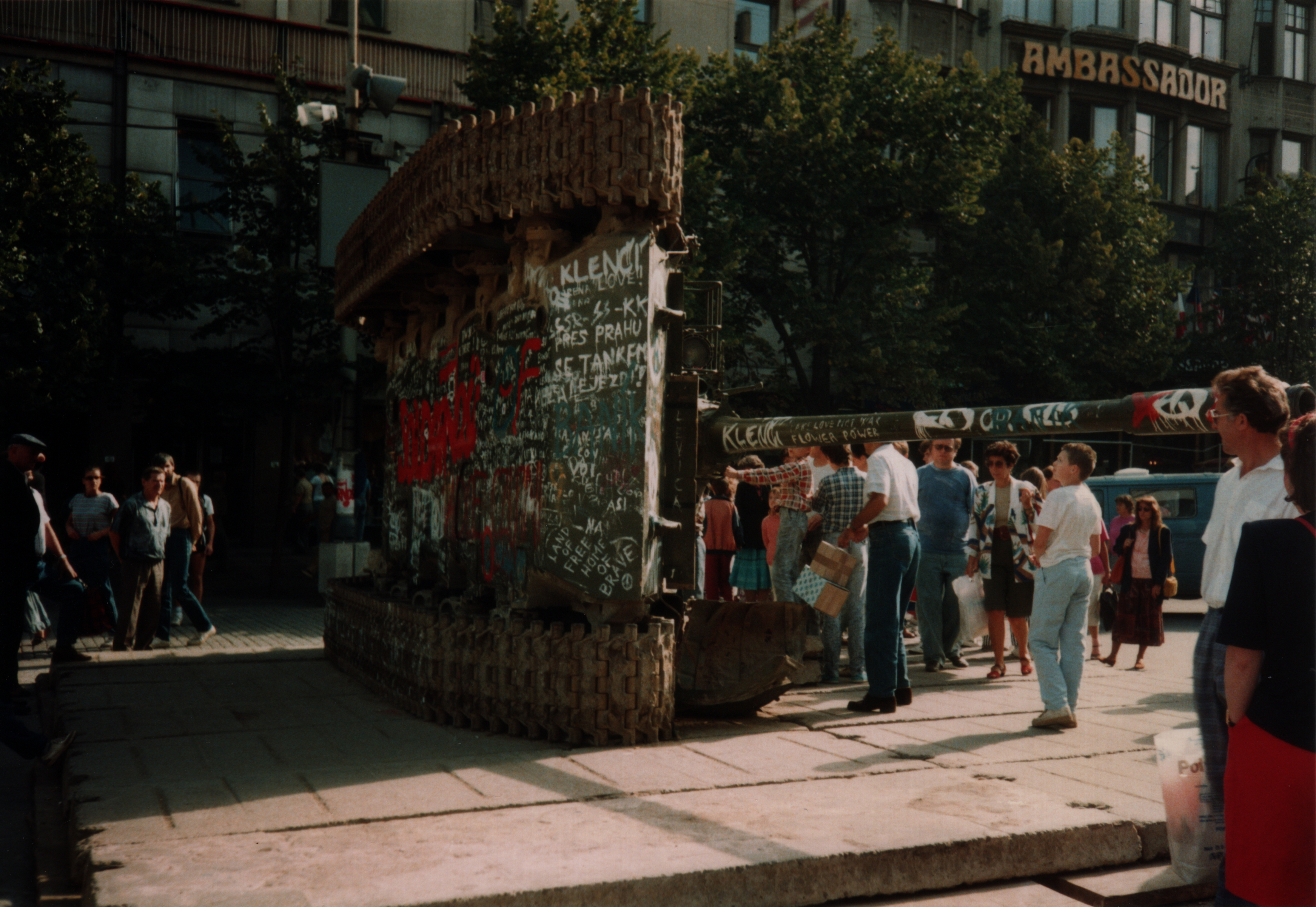 On Václavské náměstí, Prague a Soviet era T-55, the symbol of the bygone Soviet repression, has been placed on its side, covered with grafitti and vandalized by the public. The graffiti includes the logo (in red) of Solidarność. The same logo is visible on a white background on the nearby lamp post